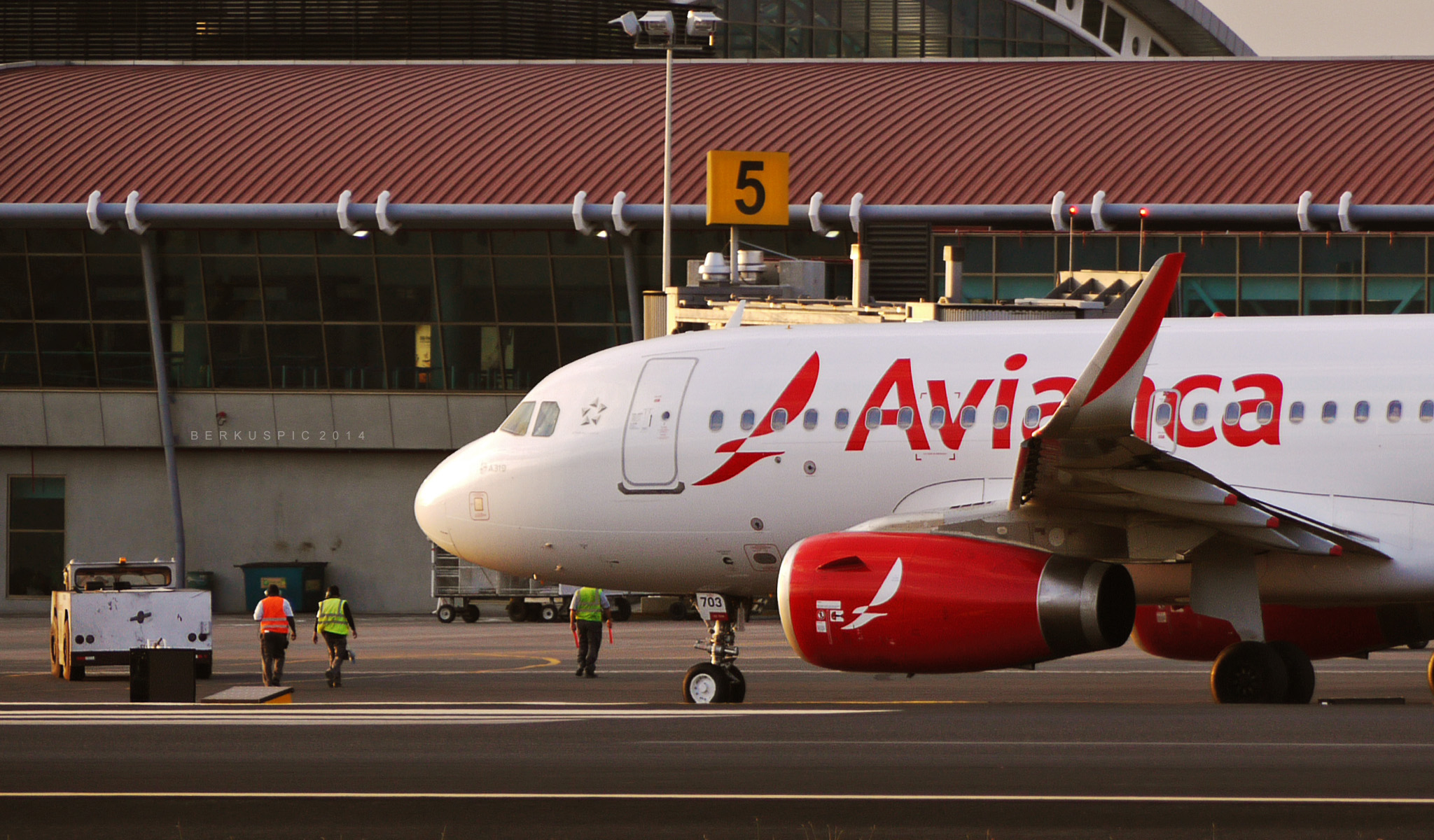 AVIANCA N703AV Just finishing pushback. MROC / SJO. Beautiful sharklets.